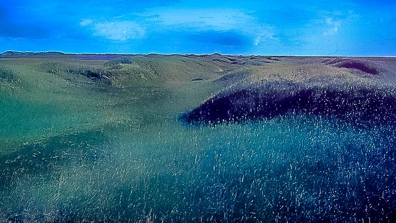 Berms Bordering the Ocean Beach Near Hooper Bay, Alaska